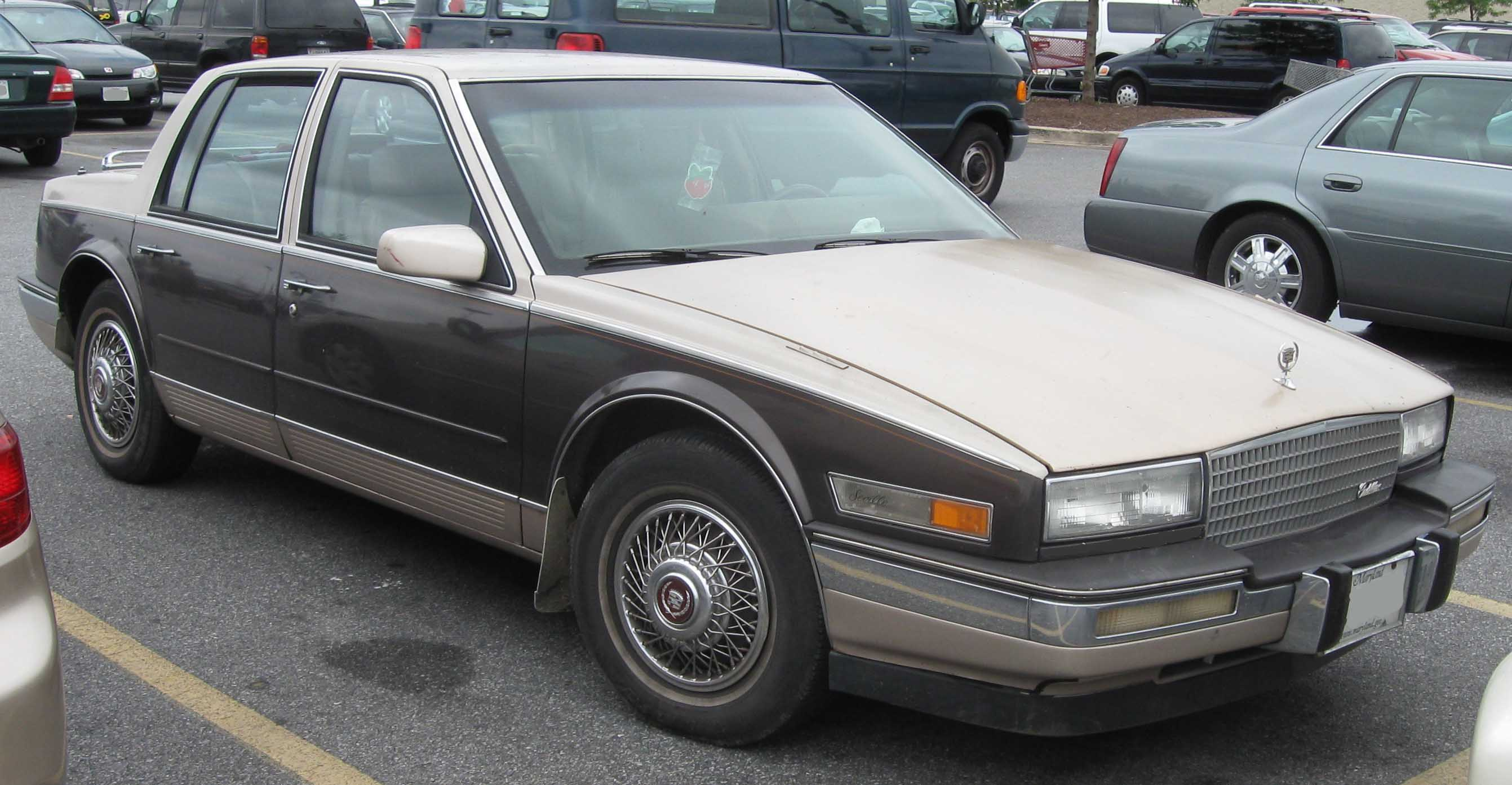 1986-1988 Cadillac Seville photographed in Clinton, Maryland, USA.